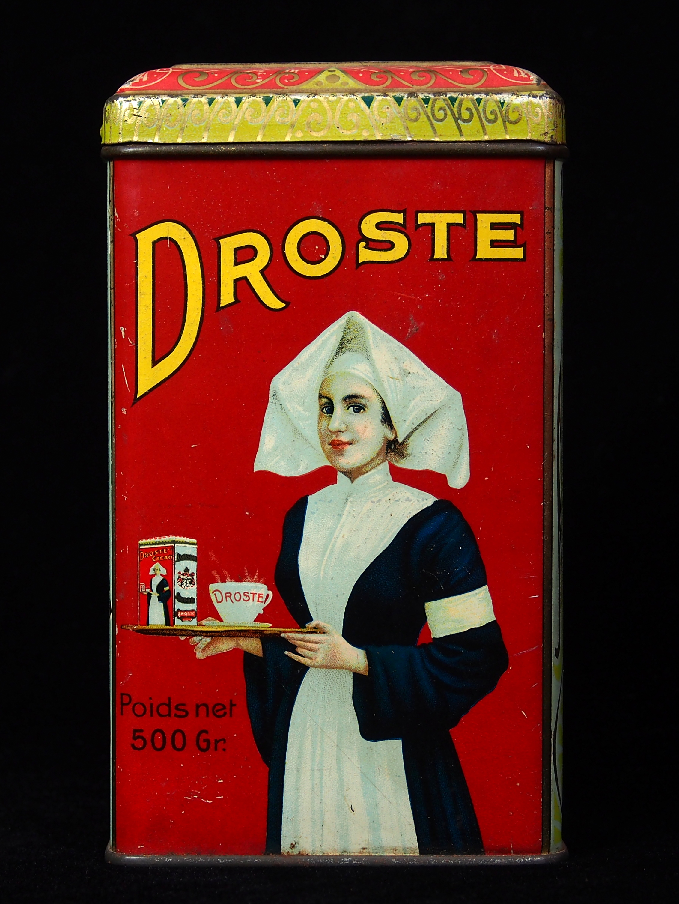 Very old product that is not produced and not sold any more. Note that some tins may look the same, but when looked for carefully there are some slight differences! Photographed at a collector of Droste memorabilia and old tin cans. For more info see tincollectors.nl or